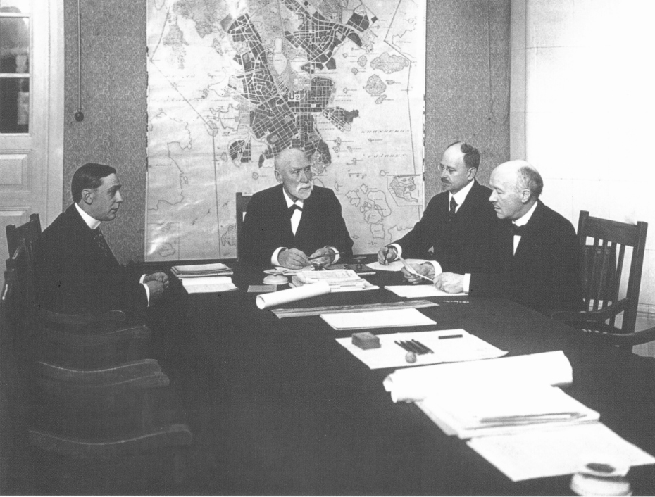 Members of the museum board of the municipality of Helsinki. From left: Nils Wasastjerna, Reinhold Hausen, Bertel Jung, and Magnus Schjerfbeck.